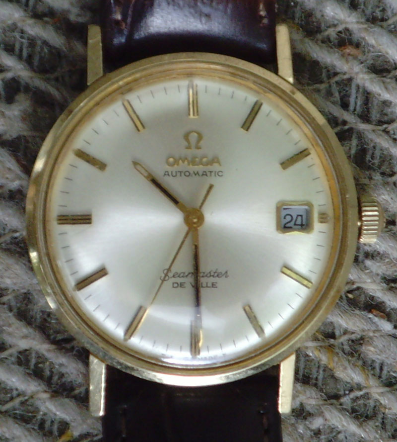 Omega Seamaster De Ville, an early "waterproof" watch, with automatic movement and date, in 14k gold